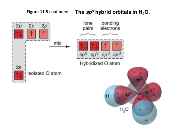 sp3 hybridization of H2O